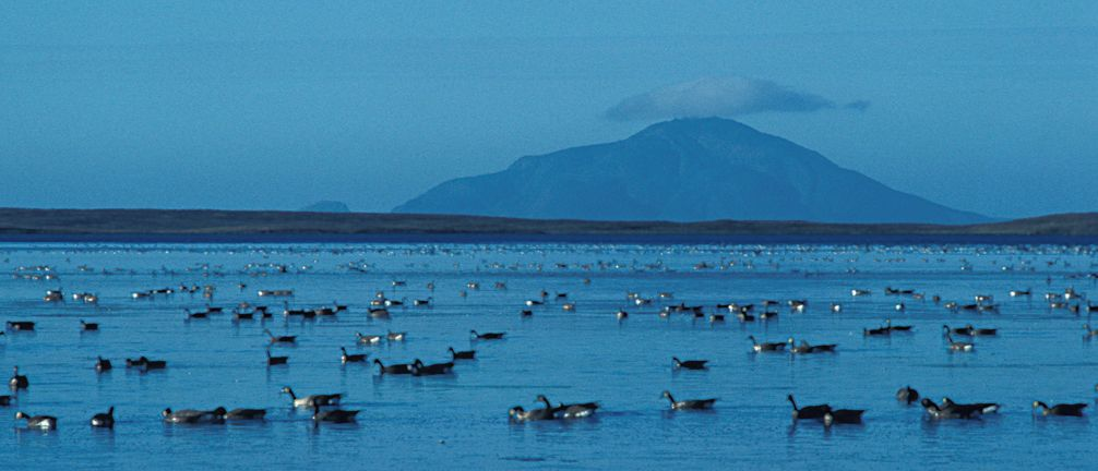 View of Izembek Lagoon and Amak Island, Alaska